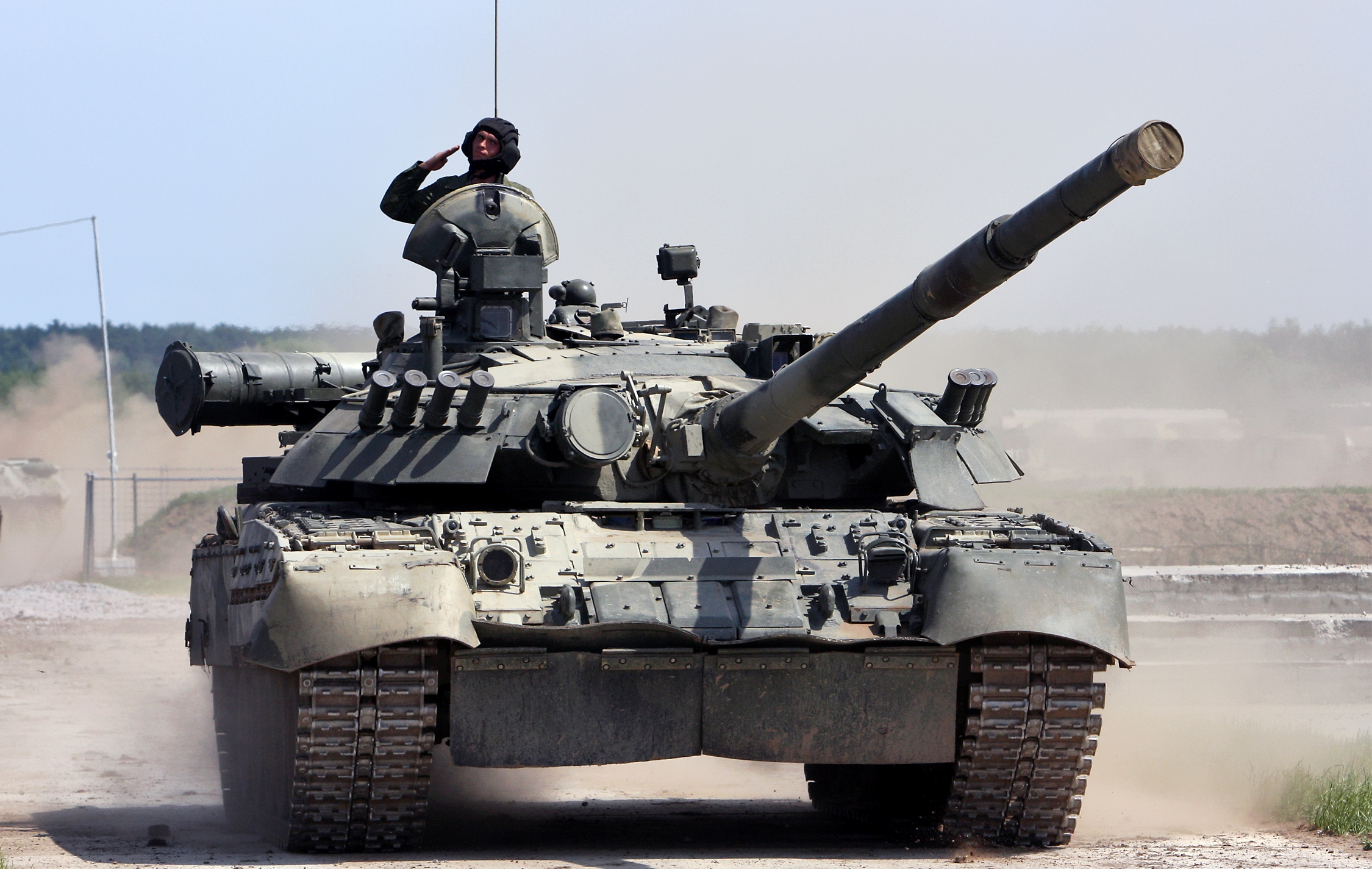 T-80U, Engineering Technologies 2010 international forum.